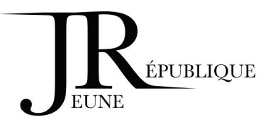 Logo jeune republique